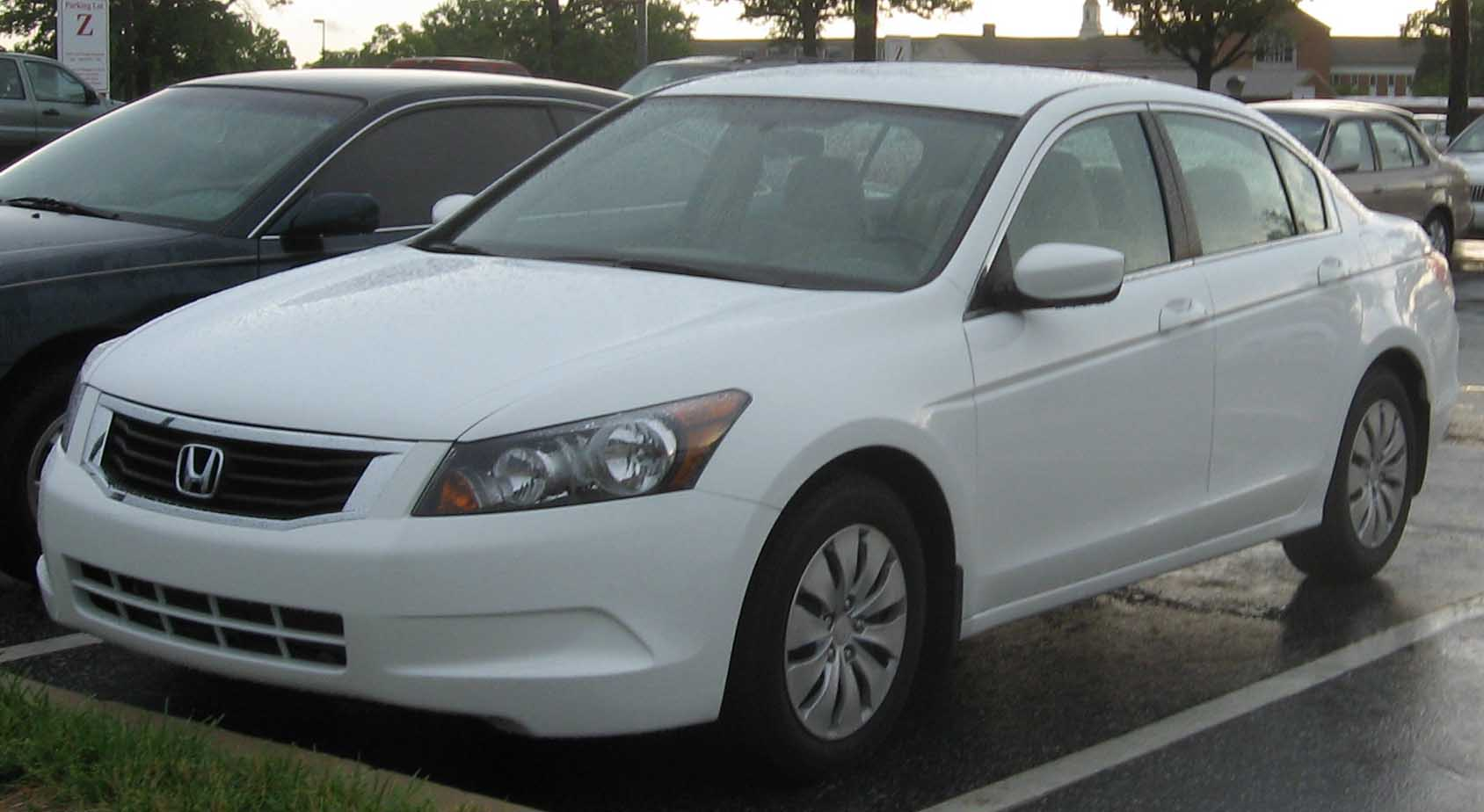 2008 Honda Accord photographed in College Park, Maryland, USA.